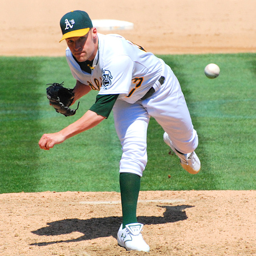 Description Greg Smith pitches against the Chicago White Sox DateAugust 16, 2008SourceI created this work entirely by myself.AuthorJames Venes 07:46, 17 August 2008 . . Cakeordeath34 . . 500×500 (186 KB) Greg Smith pitches against the Chicago White Sox